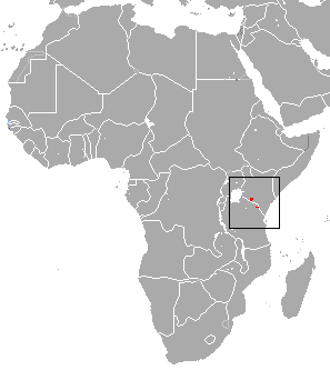 Fischer's Shrew (Crocidura fischeri) range